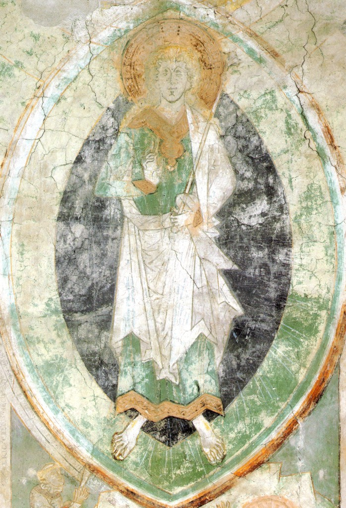 Cathedral of Gurk, Bishop's Chapel, Jesus Christ/Dom zu Gurk, Bischofskapelle, Verklärung Christi; ca 1264